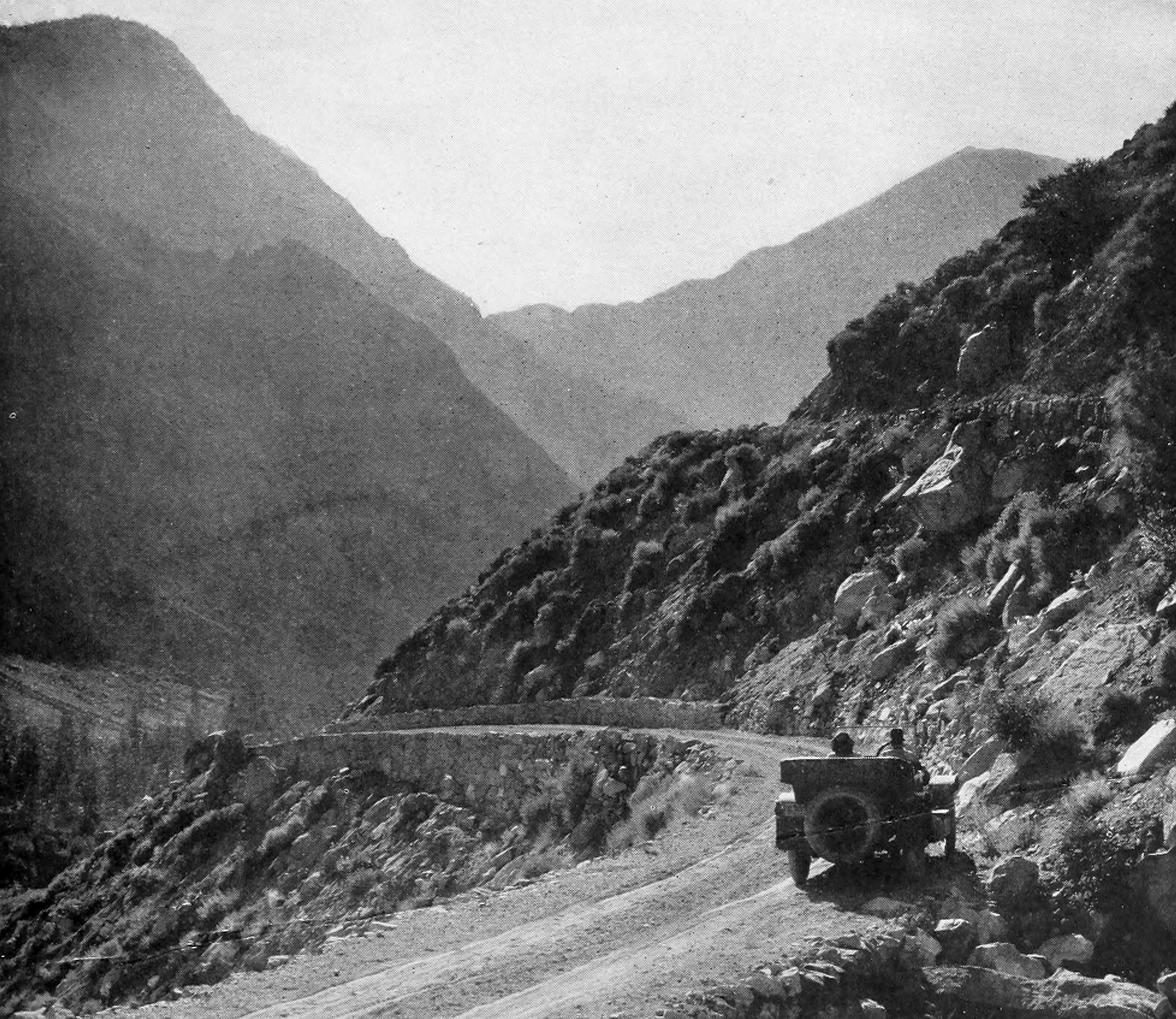 Title: The national parks portfolio Year: 1921 (1920s) Authors: Yard, Robert Sterling, 1861-1945 United States. National Park Service Subjects: National parks and reserves Publisher: Washington, DC : G.P.O. Text Appearing Before Image: EFORE the restored Tioga Road made accessible the magnificent mountain and valley area constituting the northern half of the Yosemite National Park, this pleasure paradise was known to none except a few enthusiasts who penetrated its wilderness year after year with camping outfits. This is the region of rivers and lakes and granite domes and brilliantlypolished glacial pavements. The mark of the glacier is seen on every hand.It is the region of small glaciers, remnants of a gigantic past, of which thereare several in the park. It is the region of rock-bordered glacier lakes ofwhich there are more than two hundred and fifty. It is the region, above all,of small, rushing rivers and of the roaring, foaming, twisting Tuolumne. From the base of the Sierra crest, born of its snows, the Tuolumne Riverrushes westward roughly paralleling the Tioga Road. Midway it slantssharply down into the Tuolumne Canyon forming in its mad course a waterspectacle destined some day to world fame. Text Appearing After Image: Photograph by H. C. Tibbitts Tioga Road Scenery (Si)